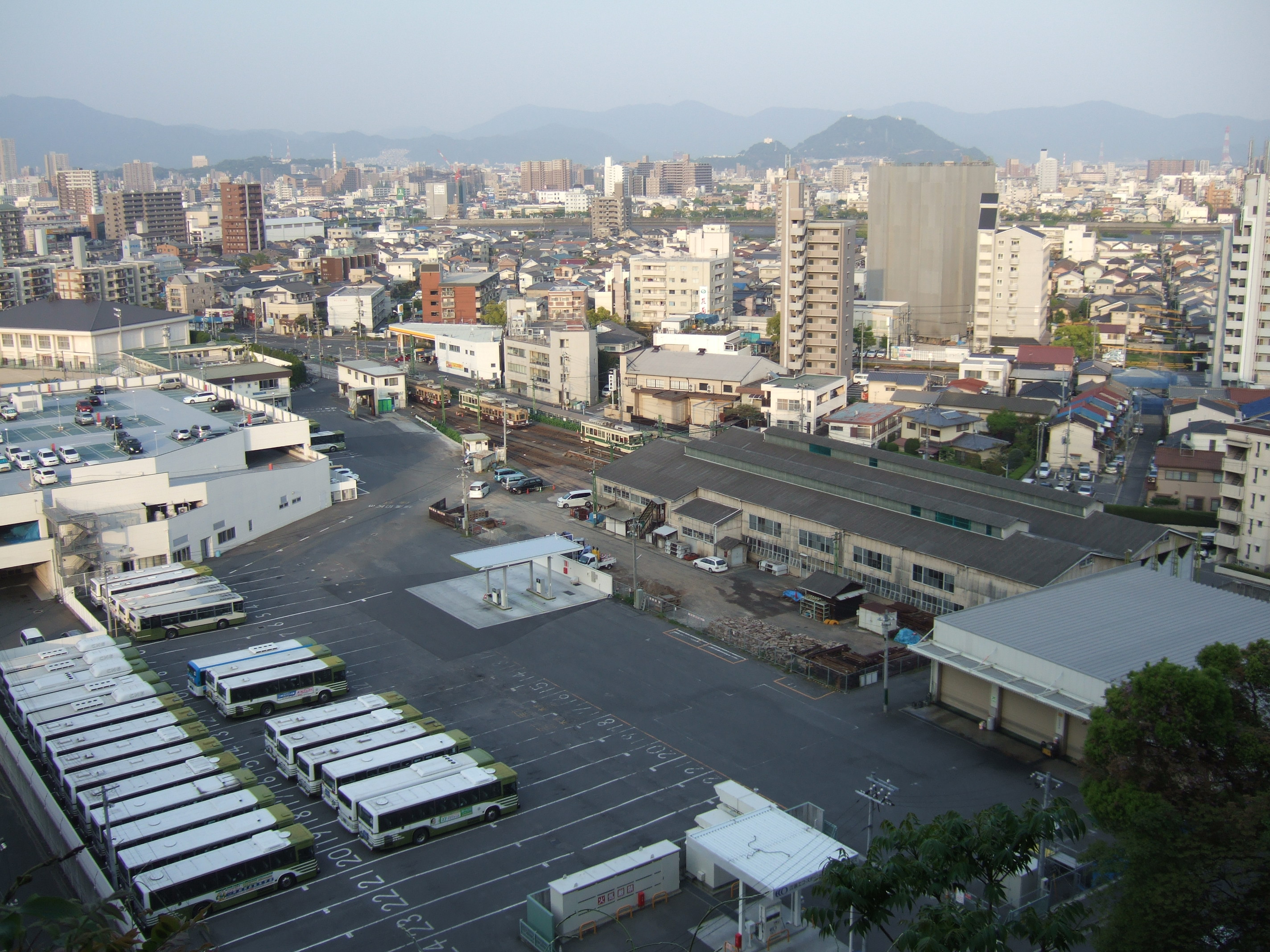 Hiroshima Electric Railway(Hiroden) Eba Rail and Bus Yard